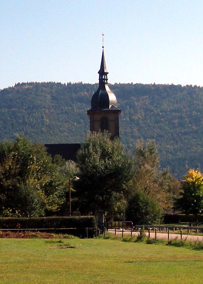 Church of Celles-sur-Plaine (Vosges)